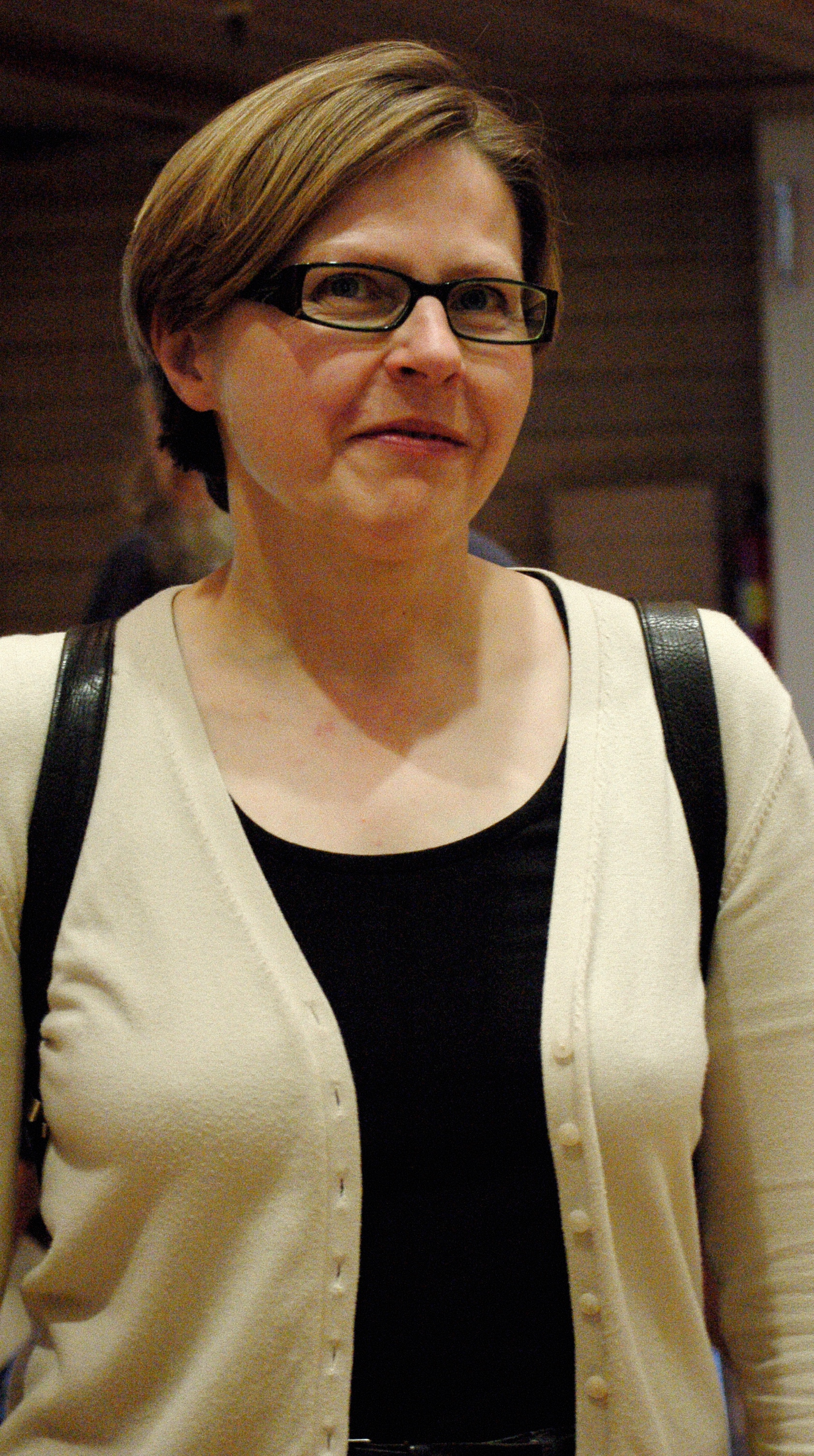 Heidi Hautala, a member of Finnish Parliament, at the 2007 party convention of Green League